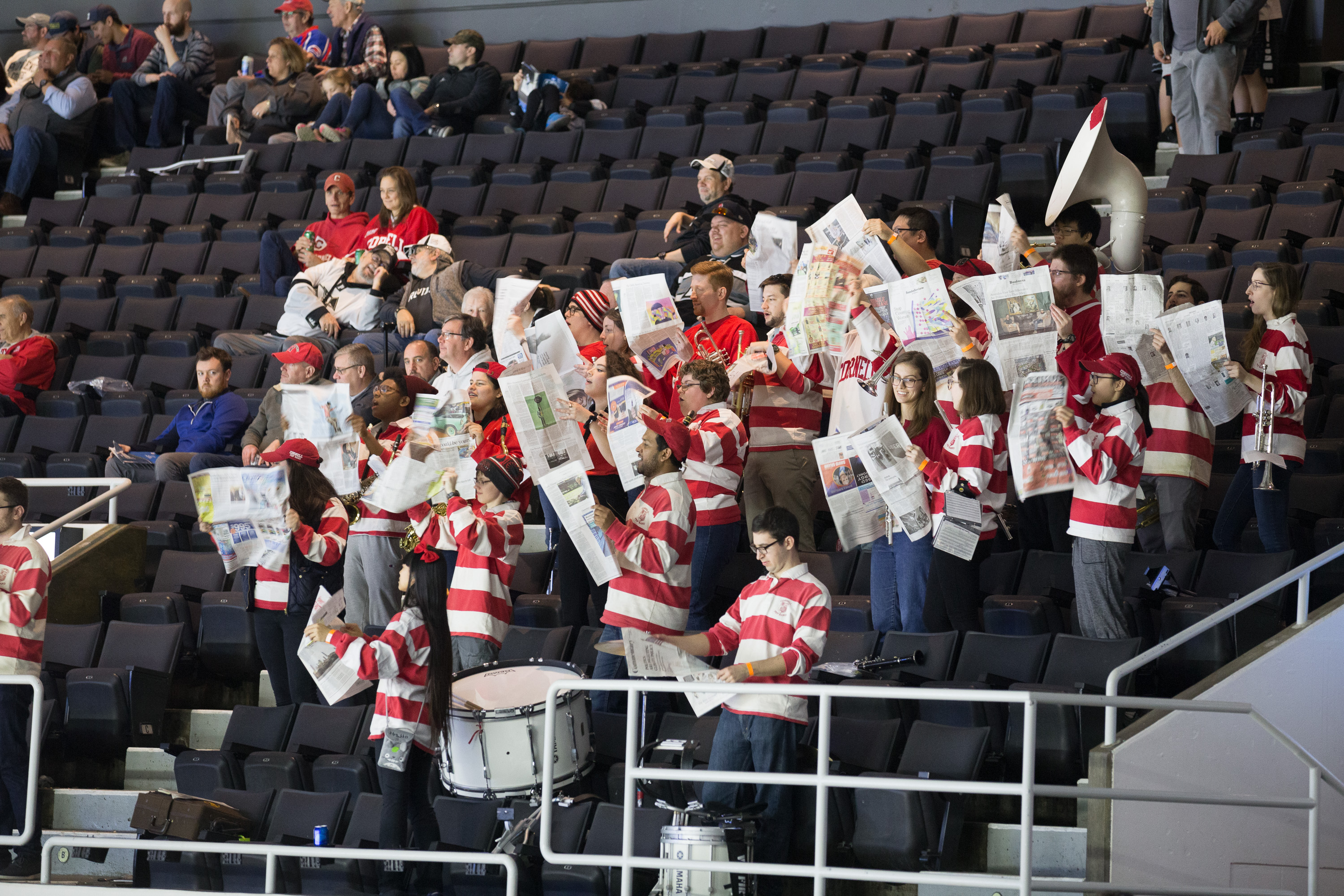 The Cornell University Pep Band holds up newspapers while the opposing team is announced. Taken at Cornell vs Northeastern NCAA East ice hockey game at Dunkin Donuts Center, Providence Rhode Island.